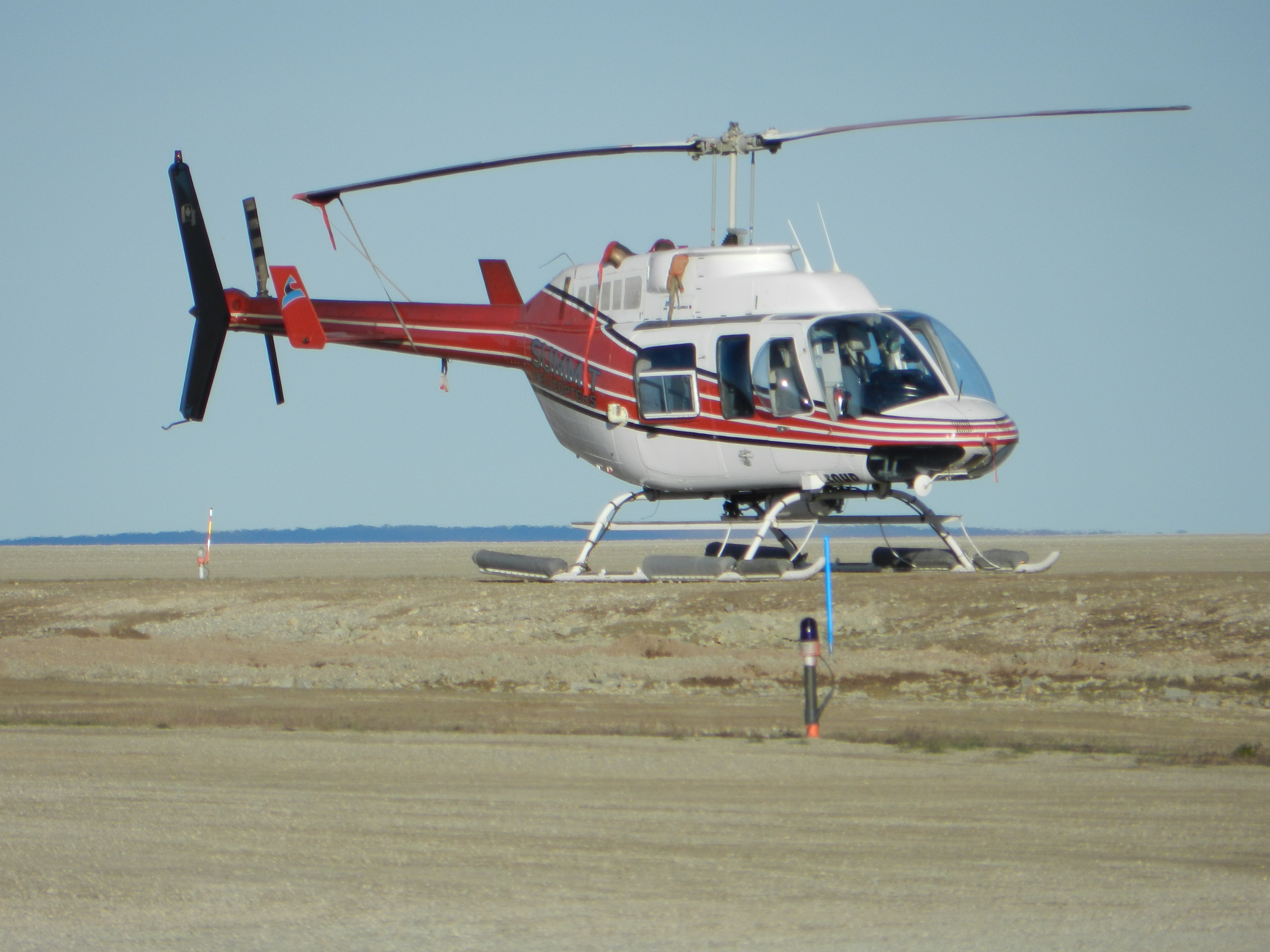 C-FQHB Summit Helicopters B06 at Cambridge Bay Airport